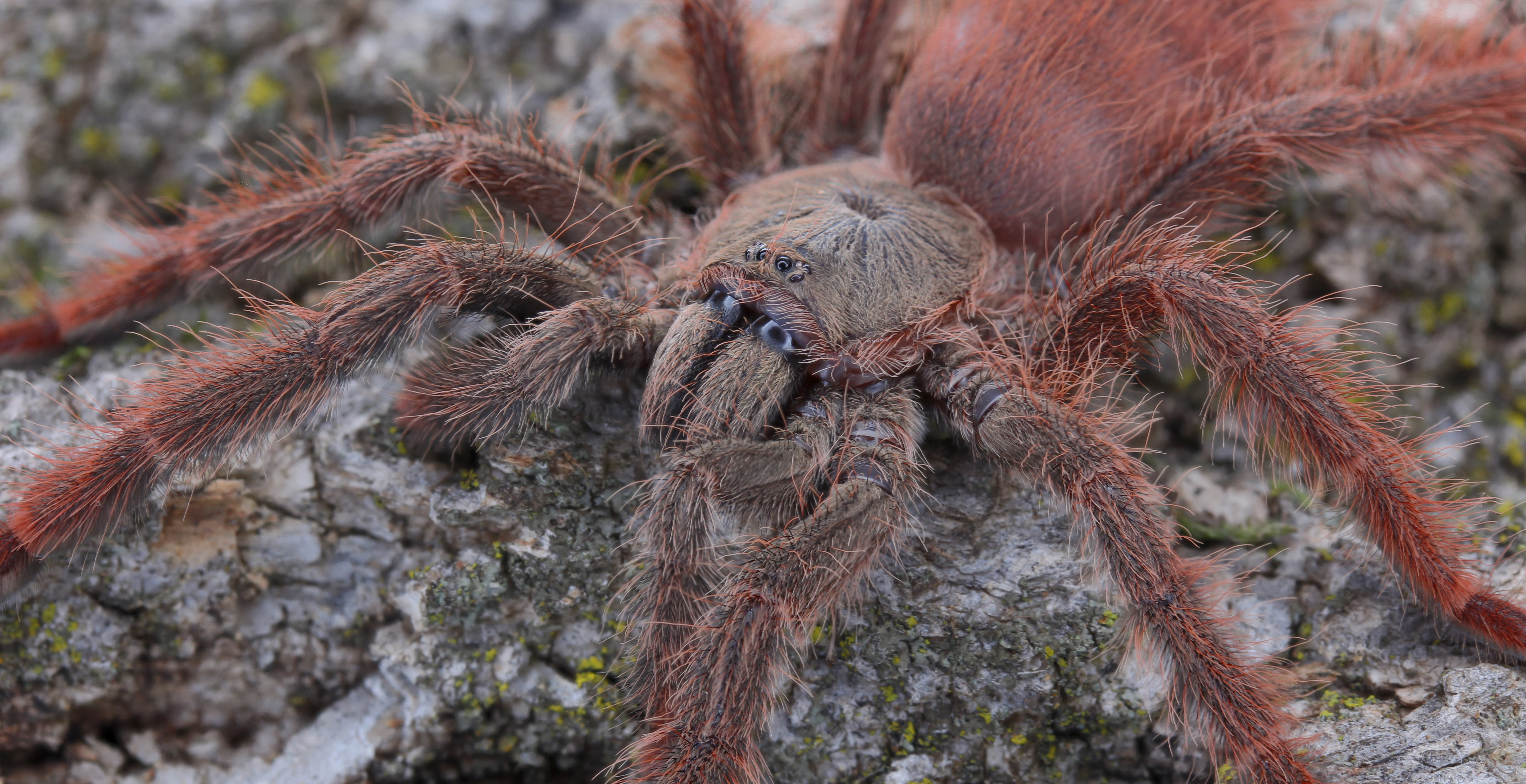 Tapinauchenius gigas (sub-adult female), the Orange Tree Spider, it a tarantula endemic to both the French Guyana and Venezuela.